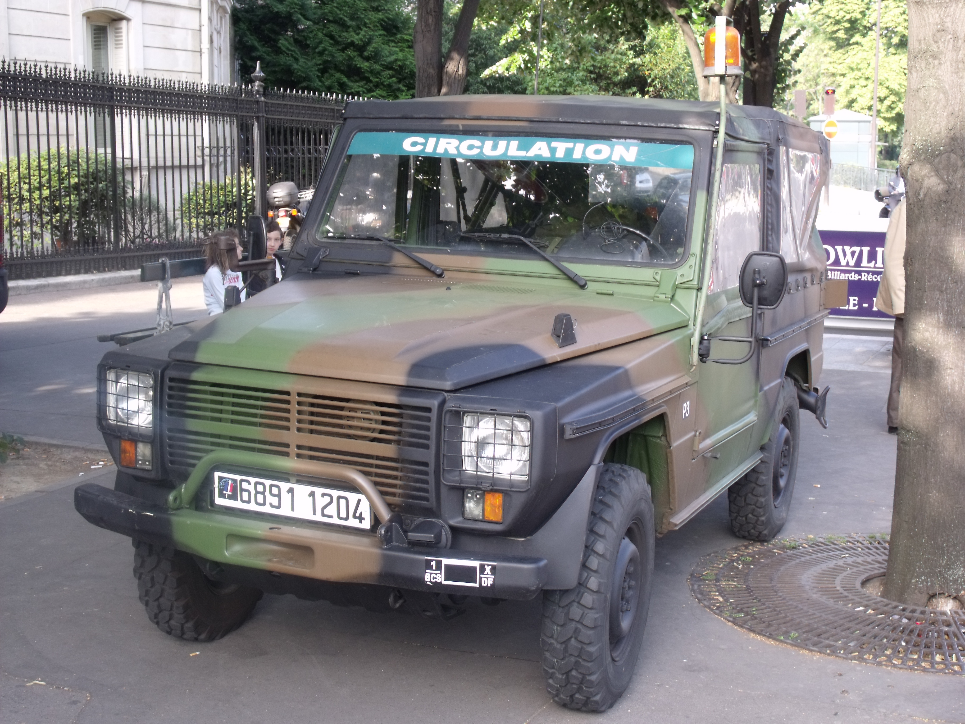 French Army 4WD car seen here in Bastilla Day celebration, July 14th 2011.